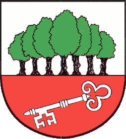 Coat of arms of the municipality Siebenbäumen in Schleswig-Holstein, Germany.